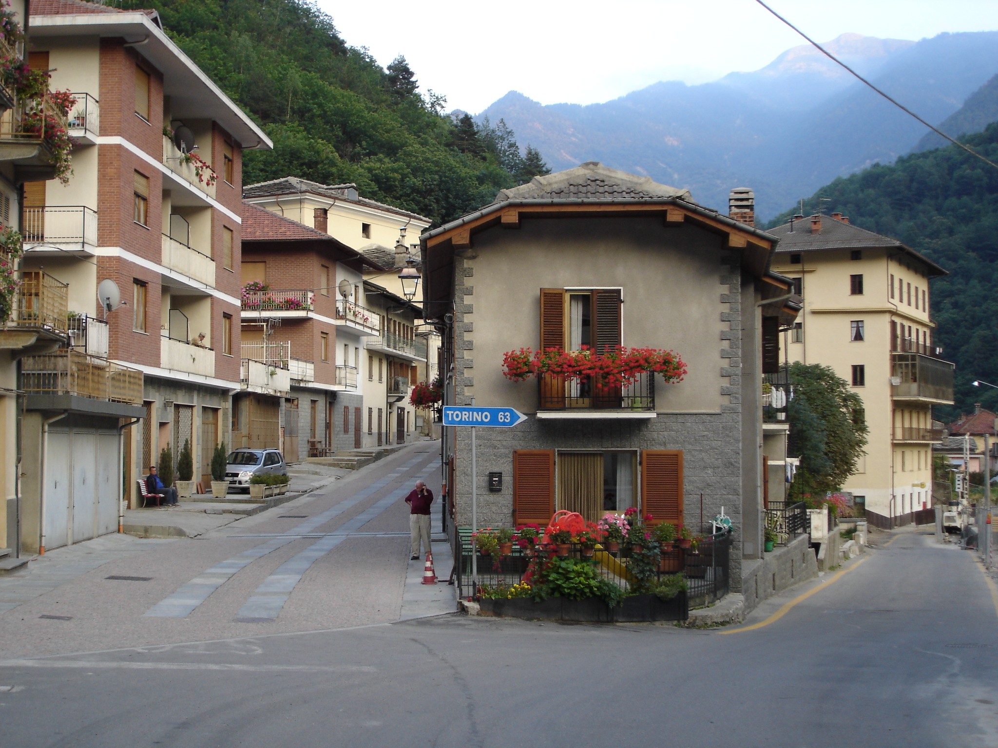 Perrero, village center